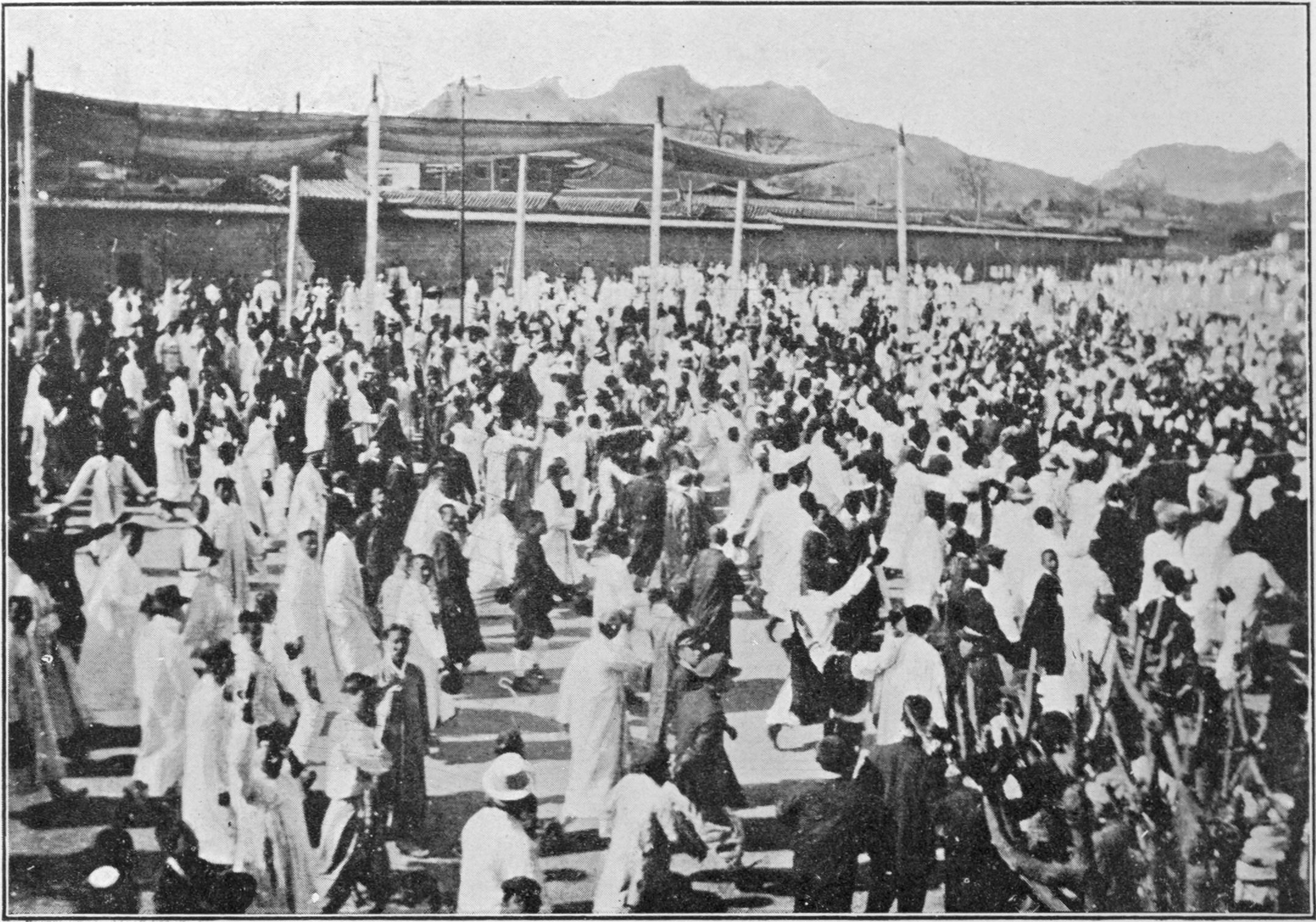 Peaceful demonstration in Seoul, in March 1919